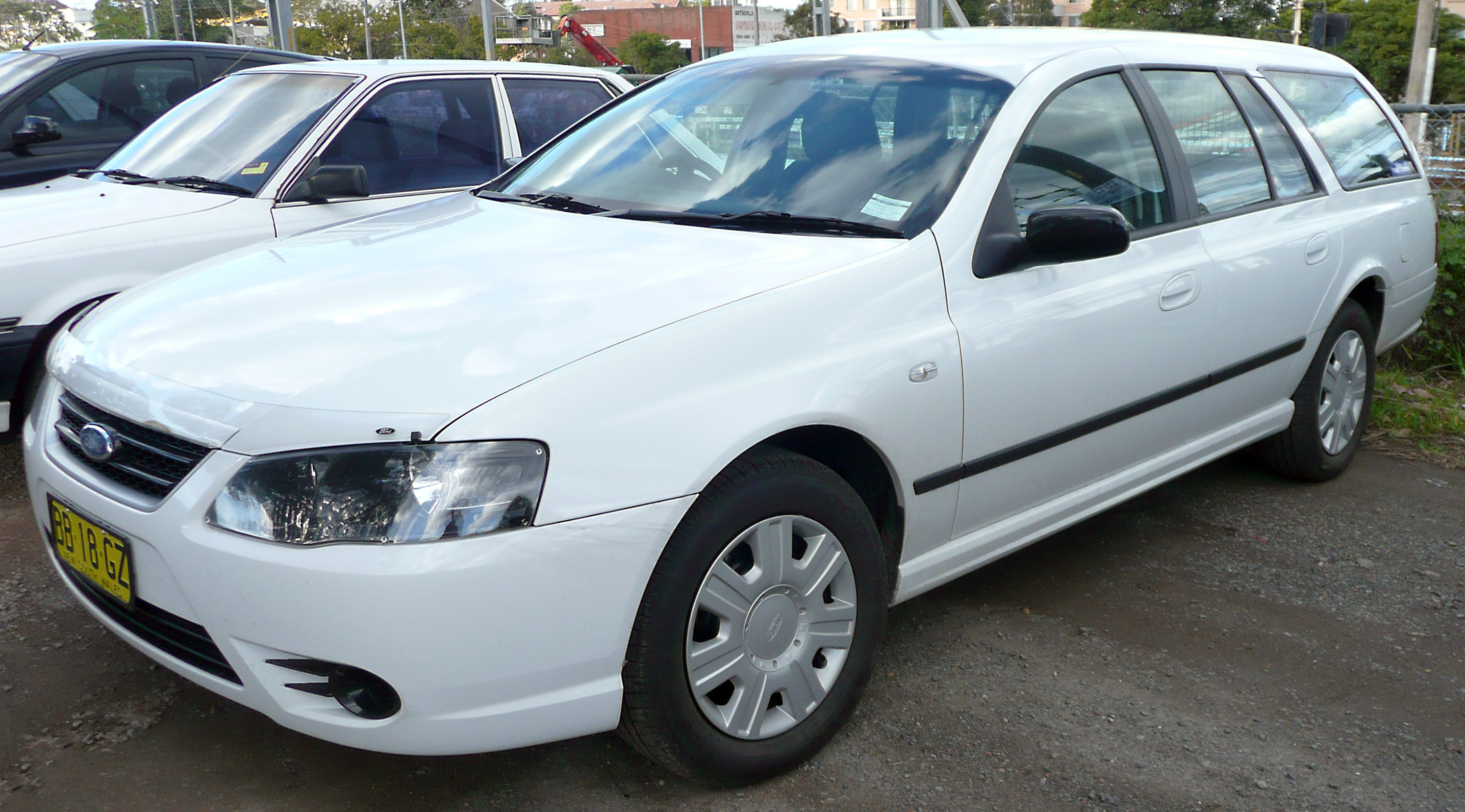 2009 Ford Falcon (BF III) XT station wagon. Photographed in Sutherland, New South Wales, Australia.